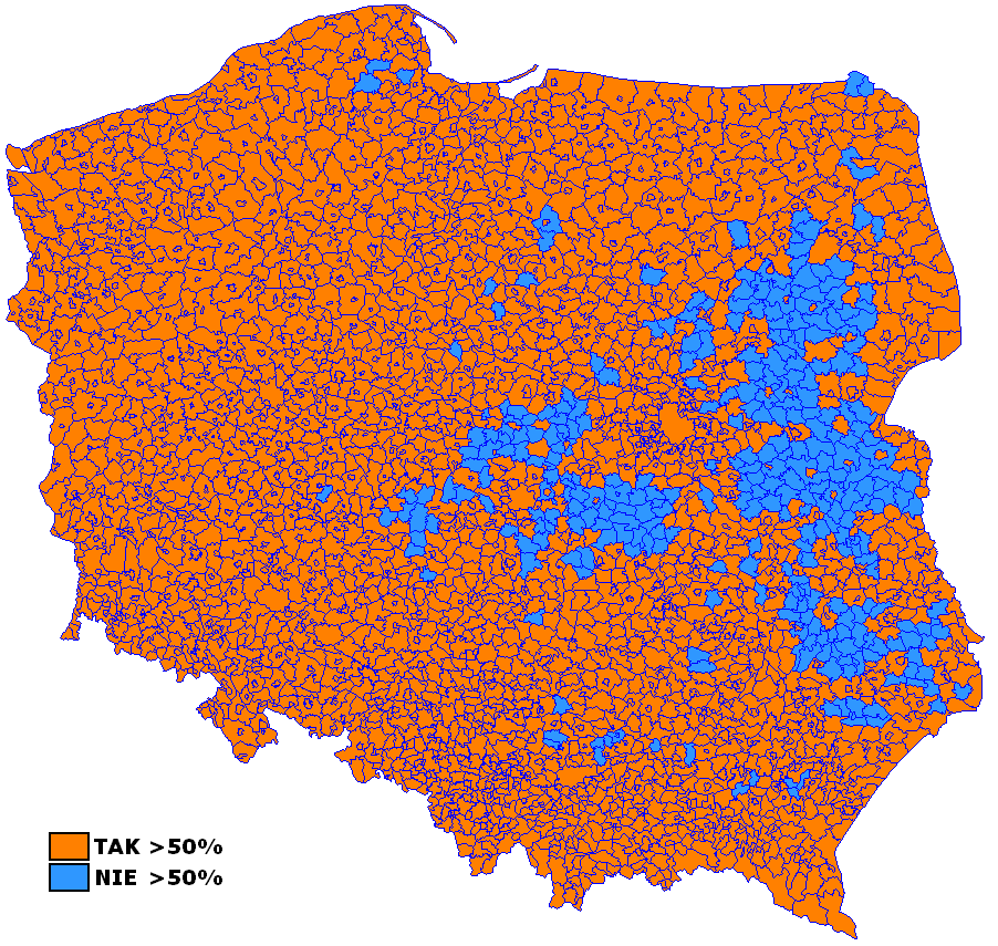 Polish European Union membership referendum, 2003 - results by communes